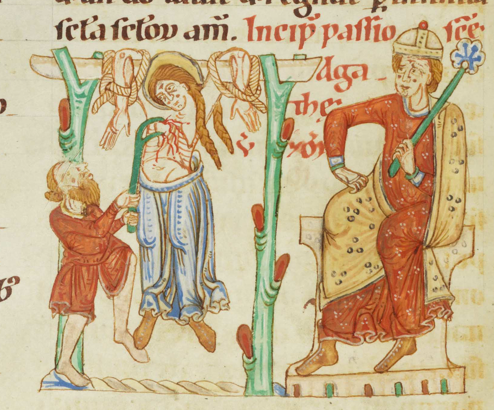 Illumination from the Passionary of Weissenau (Weißenauer Passionale); Fondation Bodmer, Coligny, Switzerland; Cod. Bodmer 127, fol. 39v